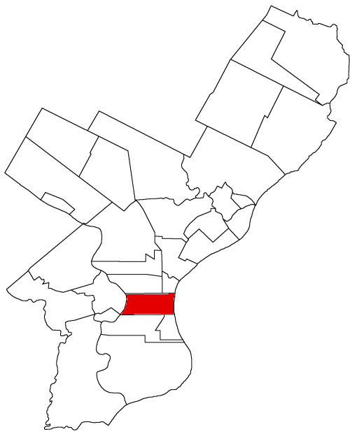 Map of Philadelphia County, Pennsylvania highlighting the City of Philadelphia prior to the Act of Consolidation, 1854